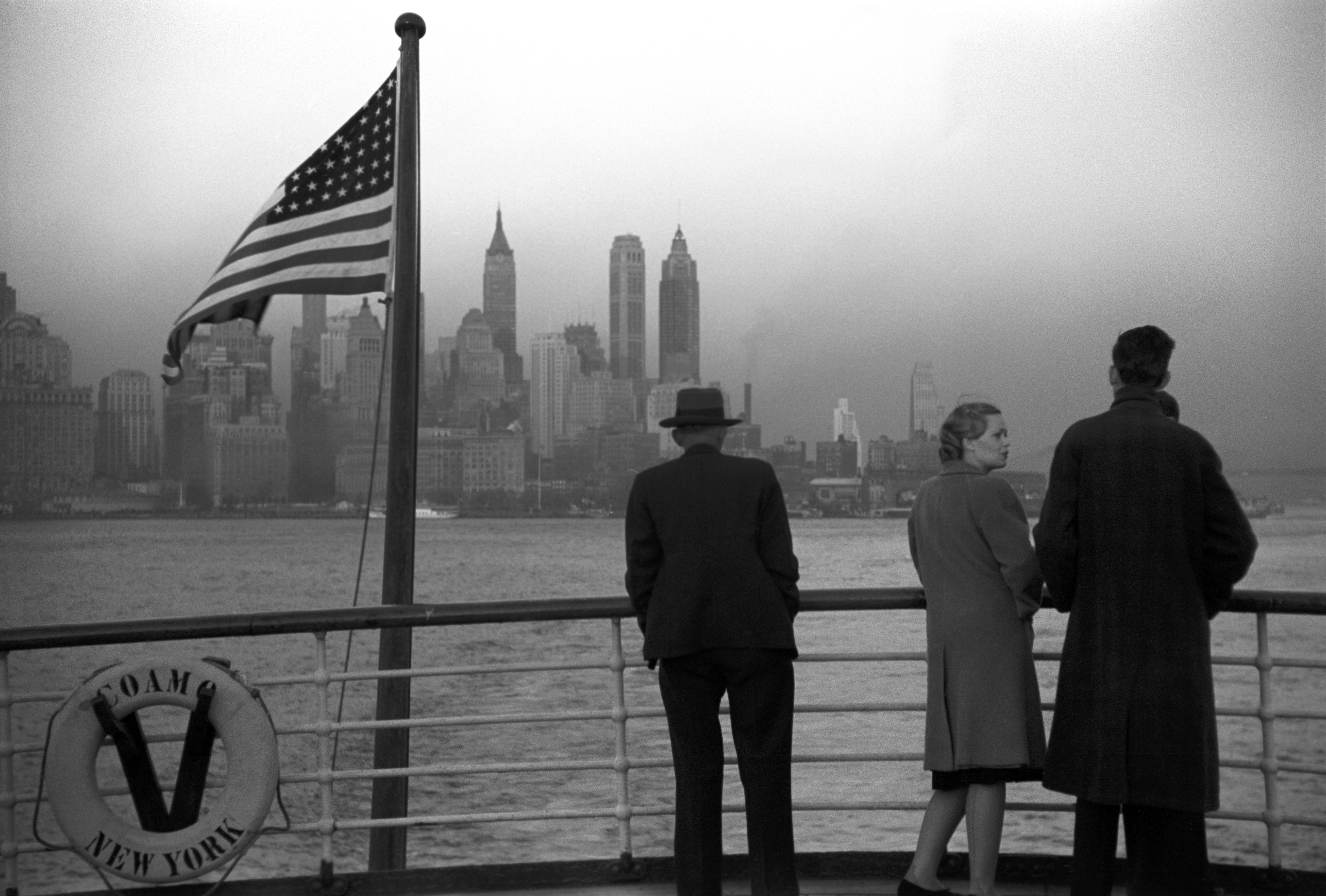 Lower Manhattan seen from the S.S. Coamo leaving New York.